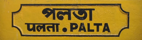 Palta station